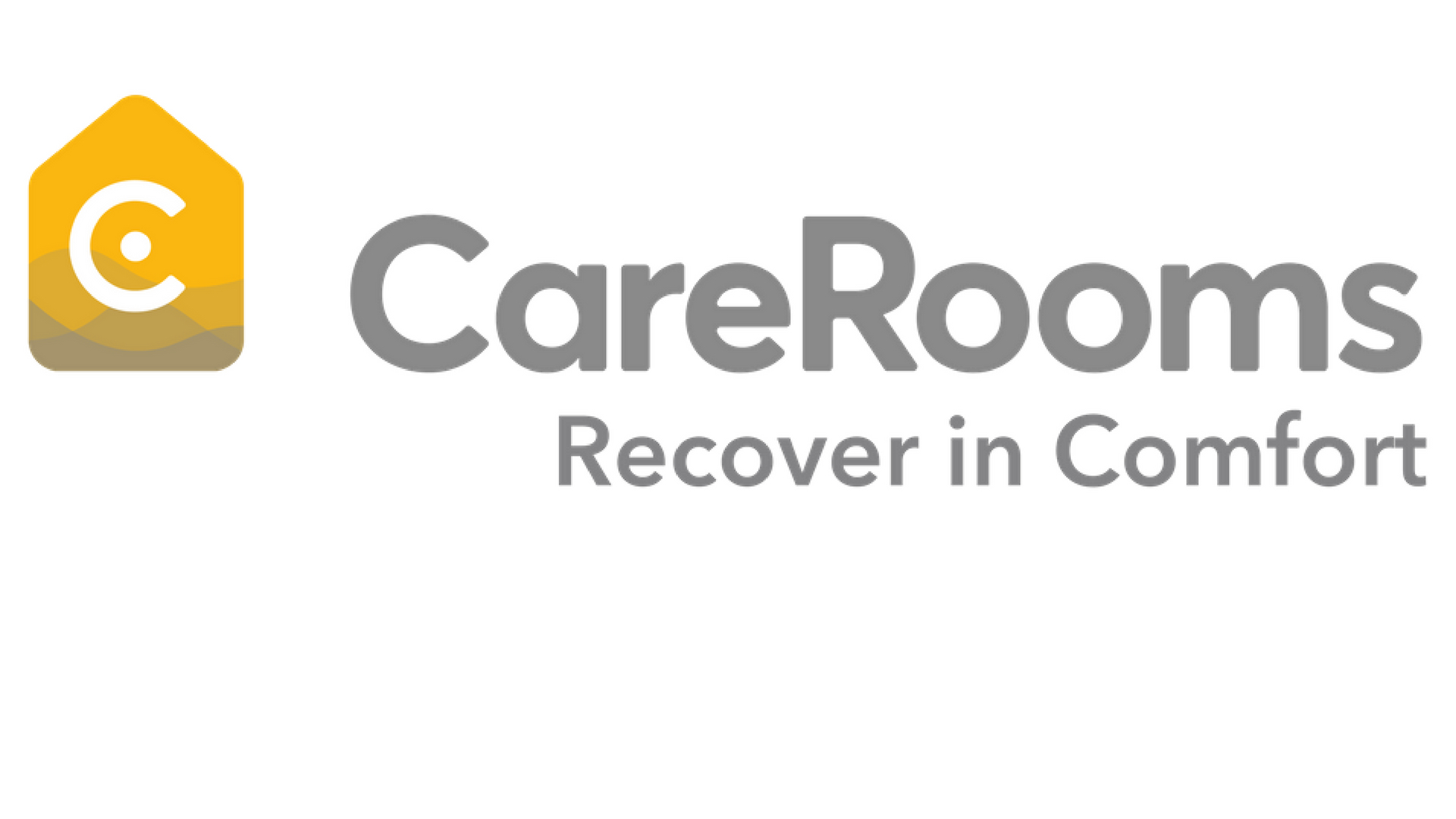 The logo and strapline of The CareRooms LTD. trading as CareRooms